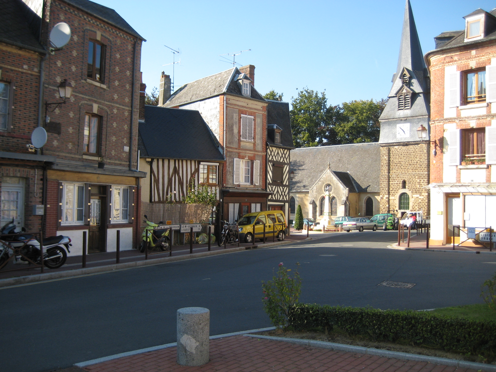 Town of Fervaques, Calvados, France